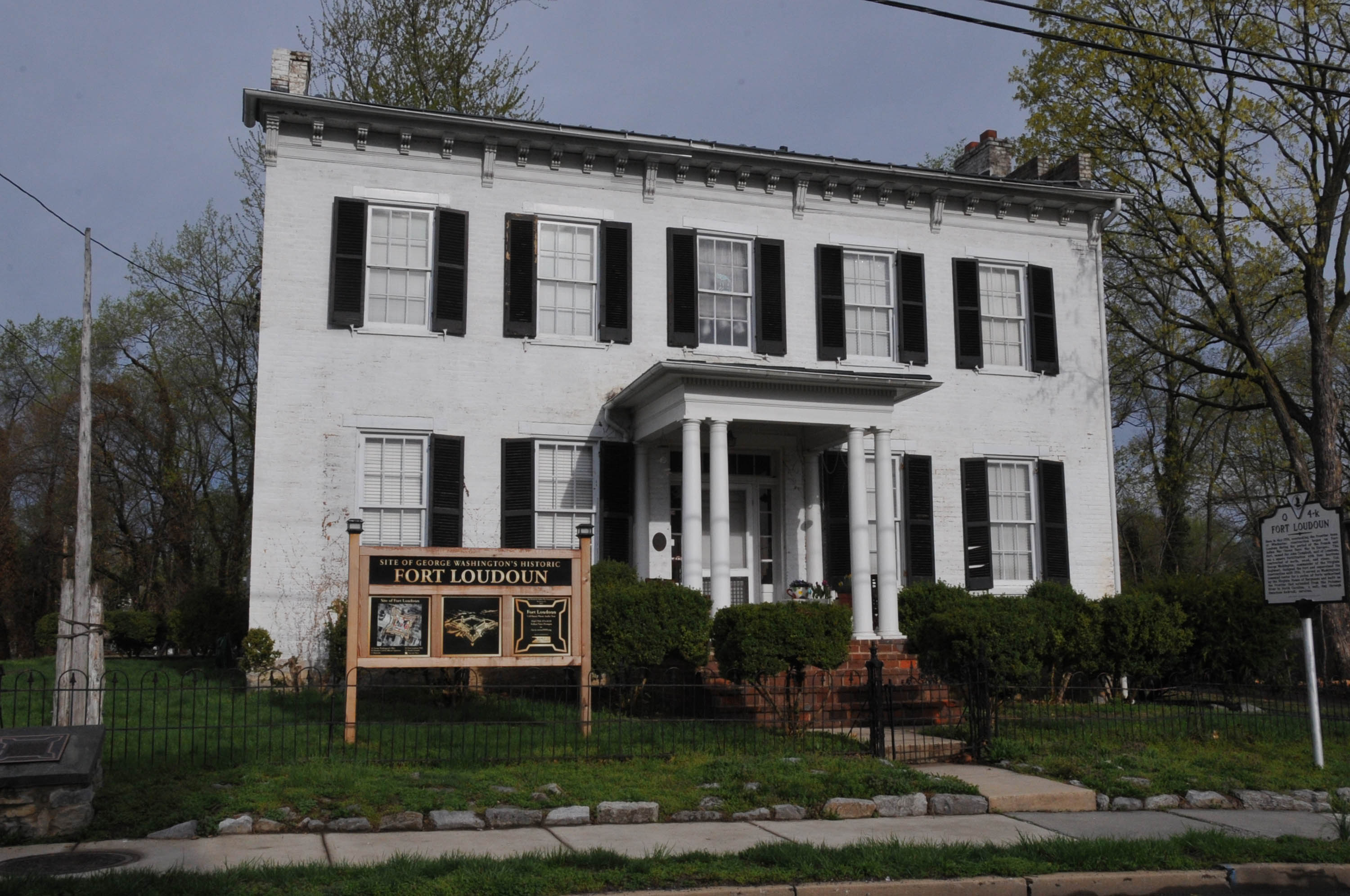 TWO SIGNS SANDING IN FRONT OF THE HOUSE ERECTED ON THE SITE